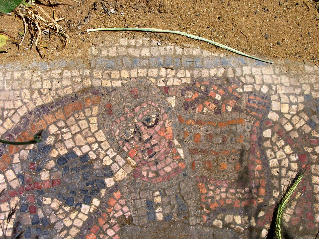 Hirbat Beit Loya, Archeological sites of Israel